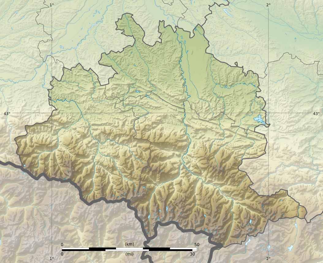 Blank physical map of the department of Ariège, France, for geo-location purpose.